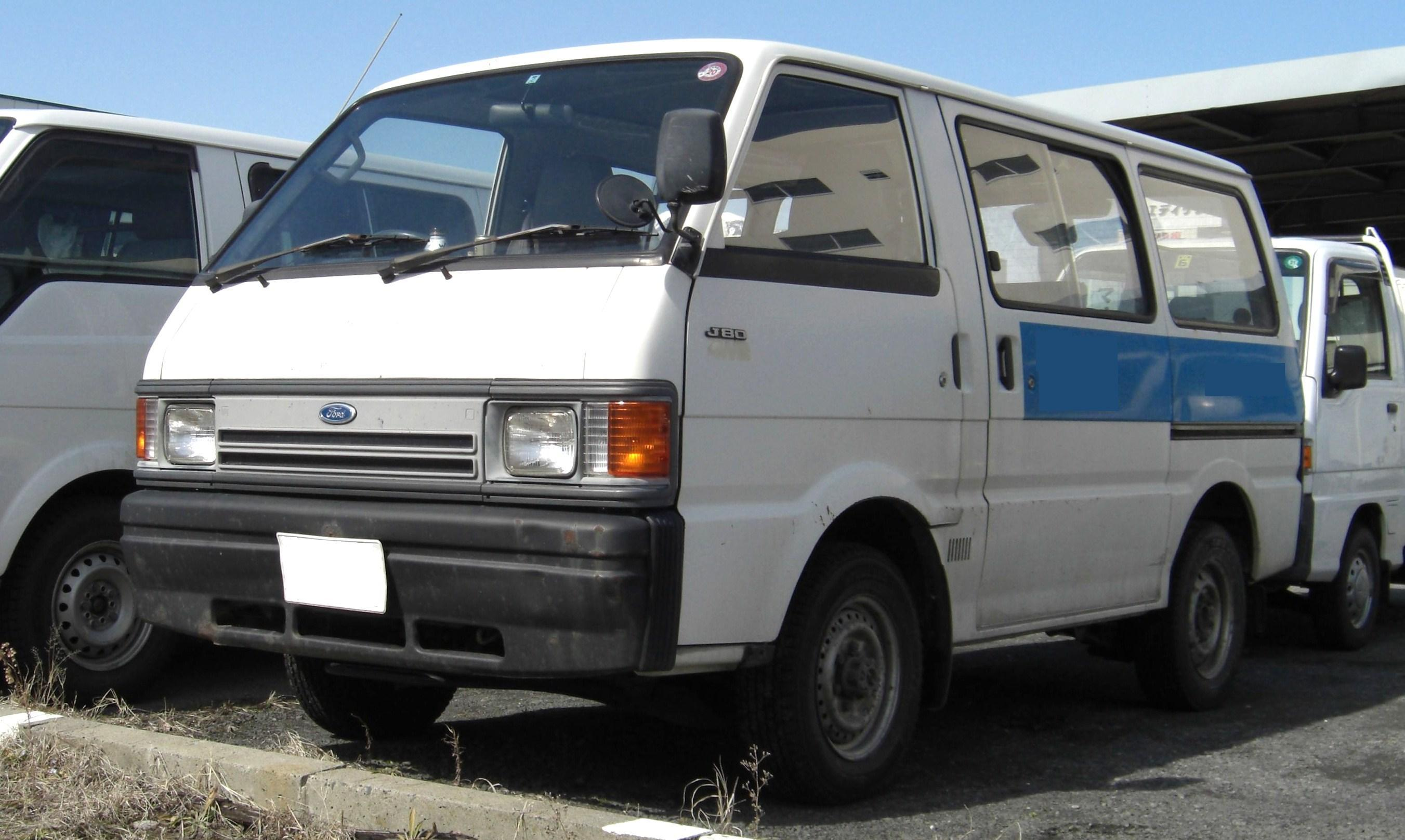 Ford J80